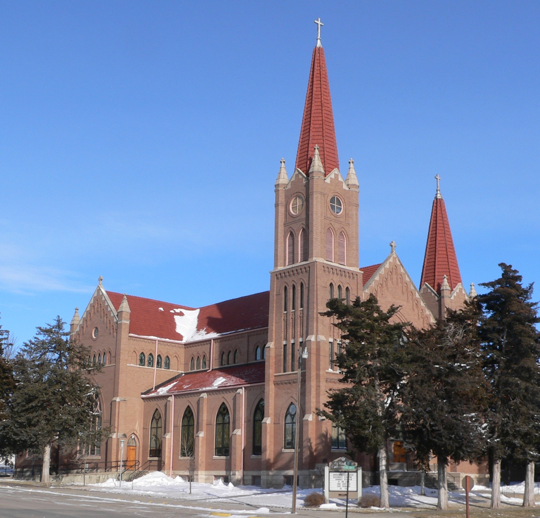 St. Michael's Church in Spalding, Nebraska; seen from the southwest. The church was designed in Gothic Revival style by architects J. H. Craddock and Jacob M. Nachtigall; its cornerstone was laid in 1908. The church is part of the St. Michael's Catholic Church Complex, which is listed in the National Register of Historic Places.